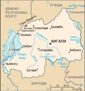 Map of Rwanda from "The World Factbook" translated to russian